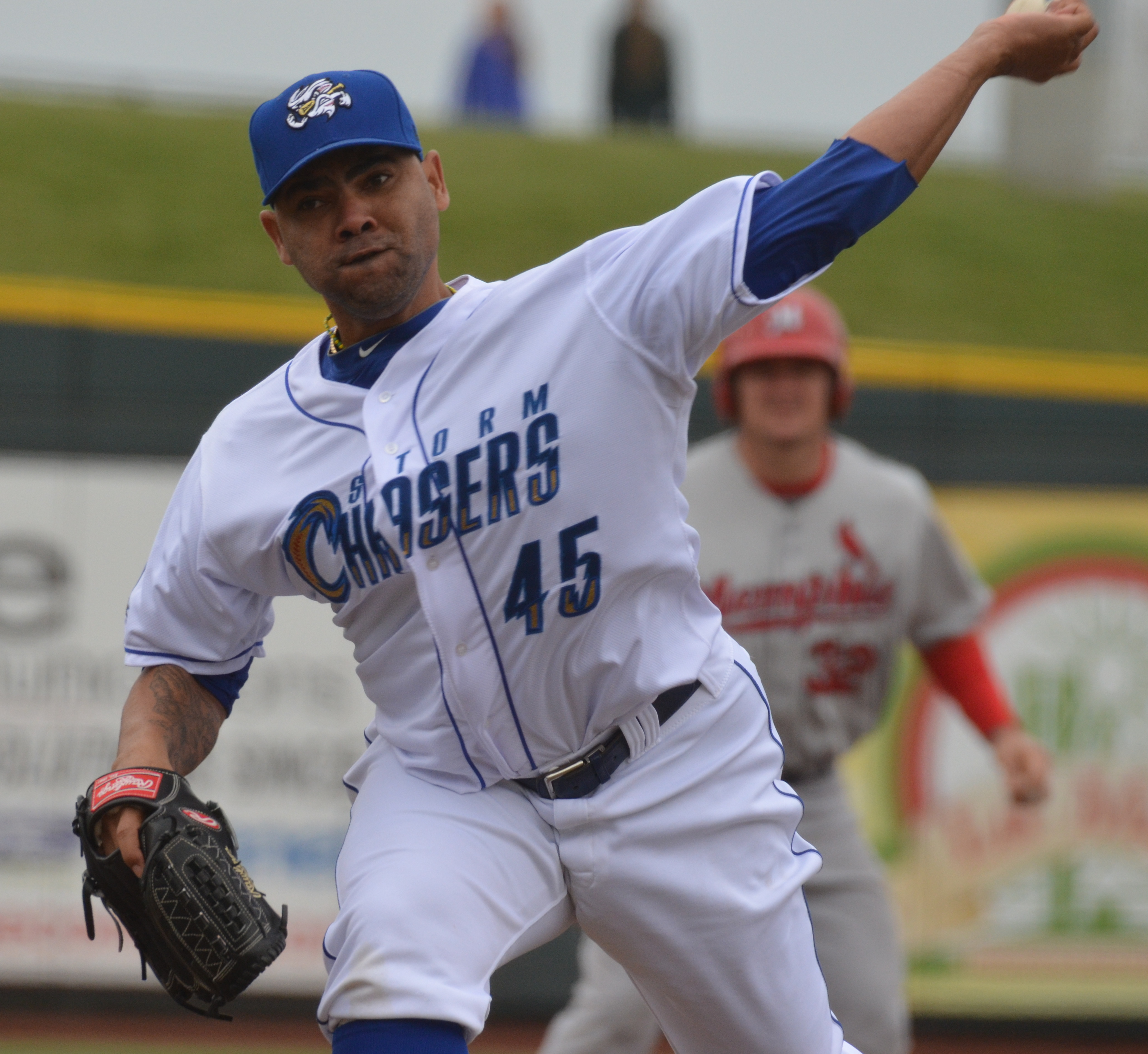 Francisley Bueno delivers a pitch for the Omaha Storm Chasers during a 2013 game at Werner Park in Omaha.